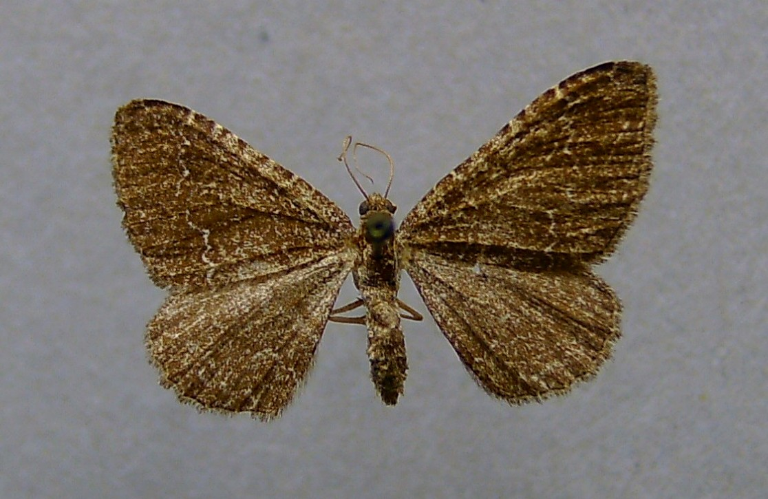 Cataclysme riguata, Kelheim, Germany